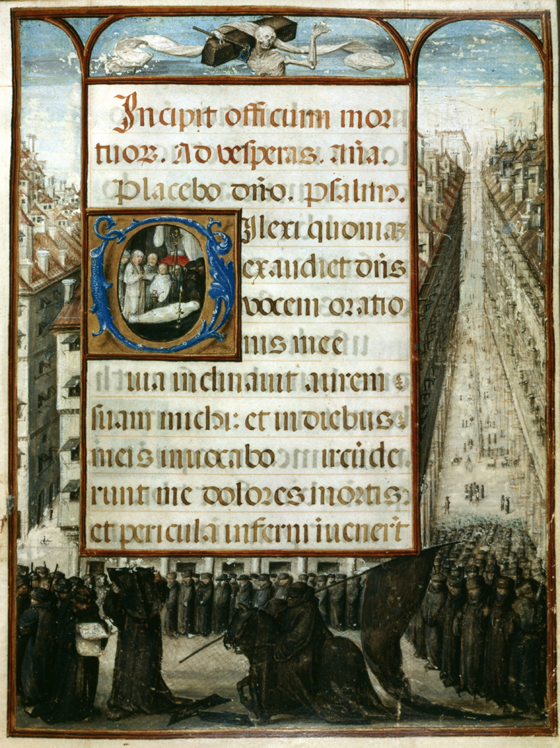 Office of the Dead, on King Manuel's Book of Hours, attributed to António de Holanda, c. 1517-1551.